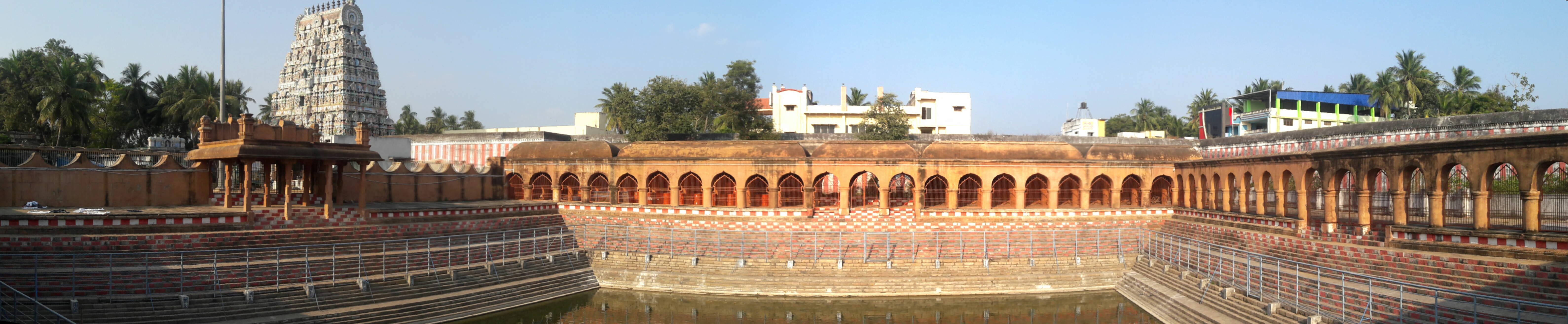 Thirunageswaram Panorama